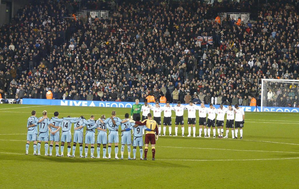 One minute silence at Craven Cottage between Fulham F.C. and Newcastle United F.C. after the death of Jim Langley.